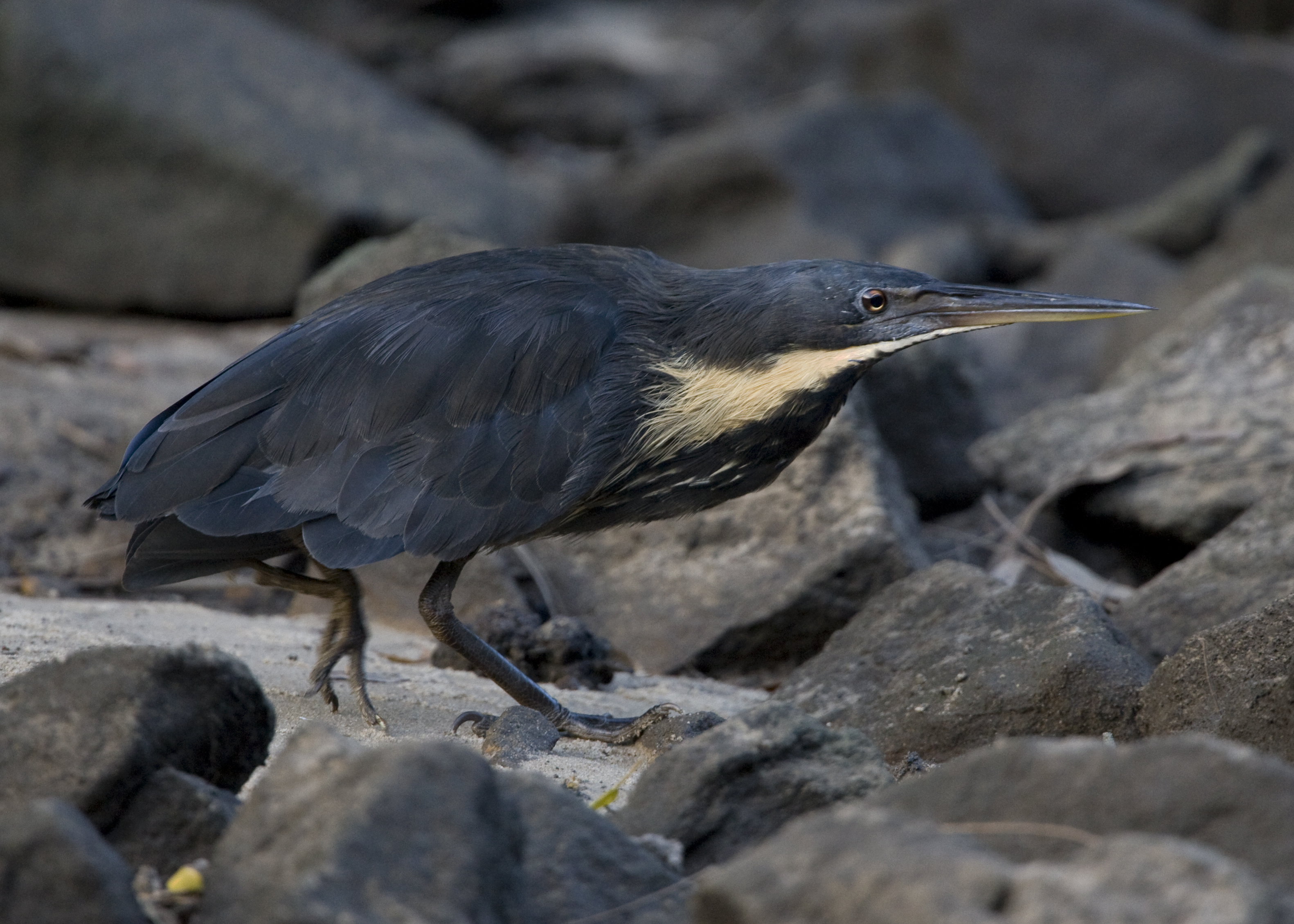 Black bittern (Ixobrychus flavicollis)